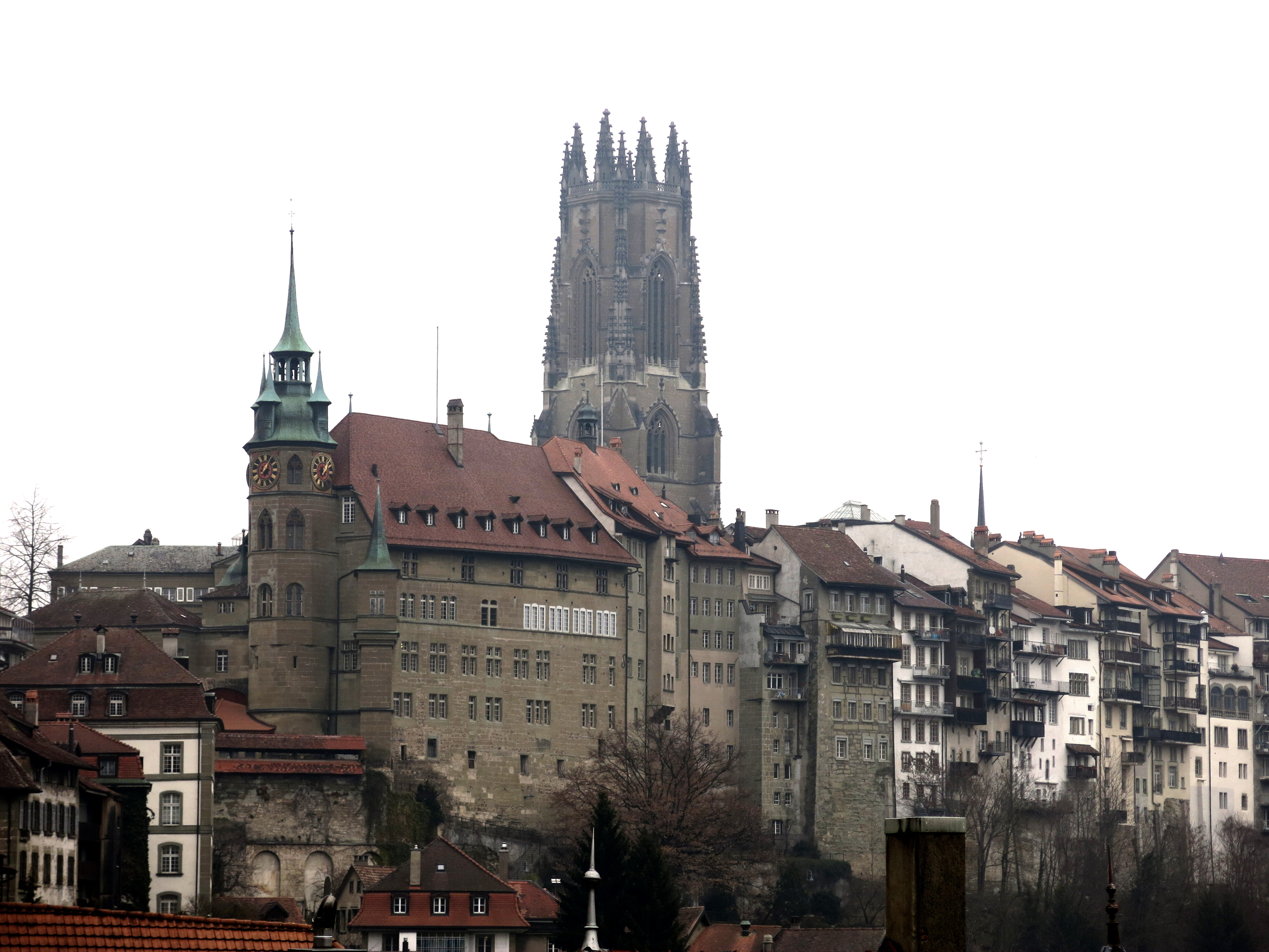 Fribourg, Switzerland